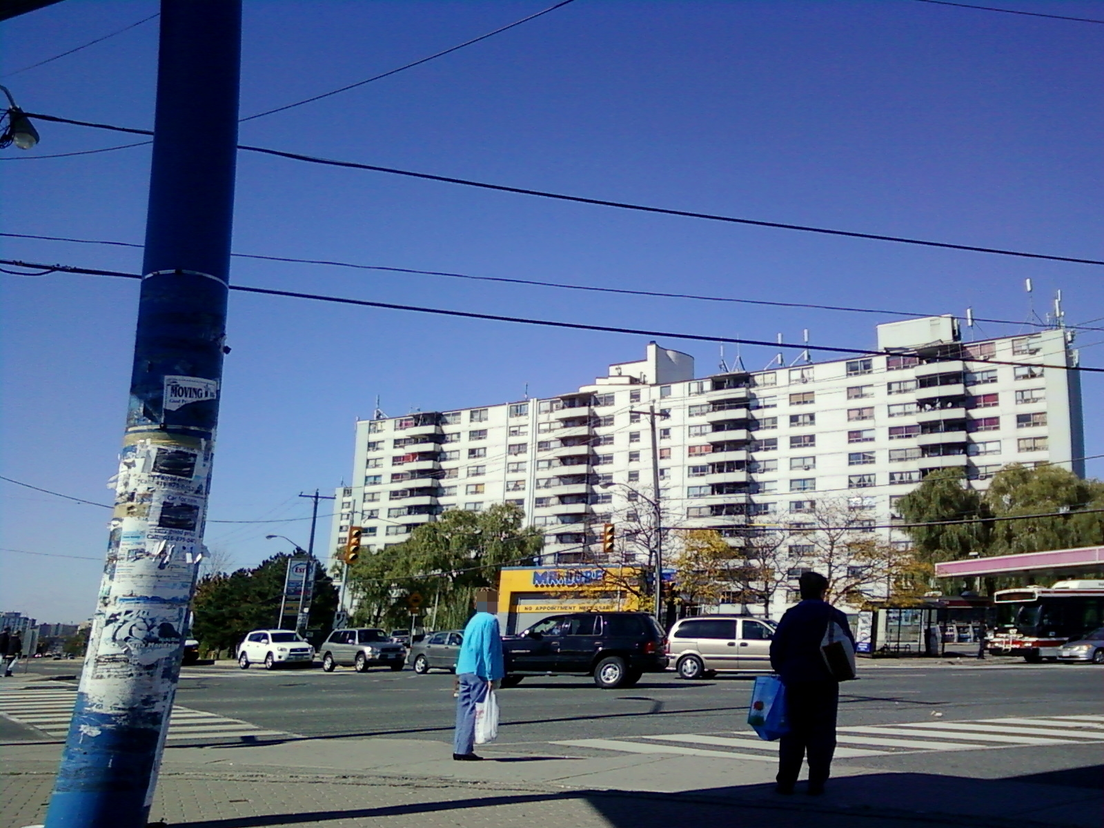 keele and lawrence intersection